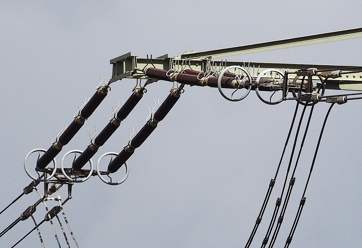 Corona rings on a 380 kV power line (Bl. 4523) in Germany